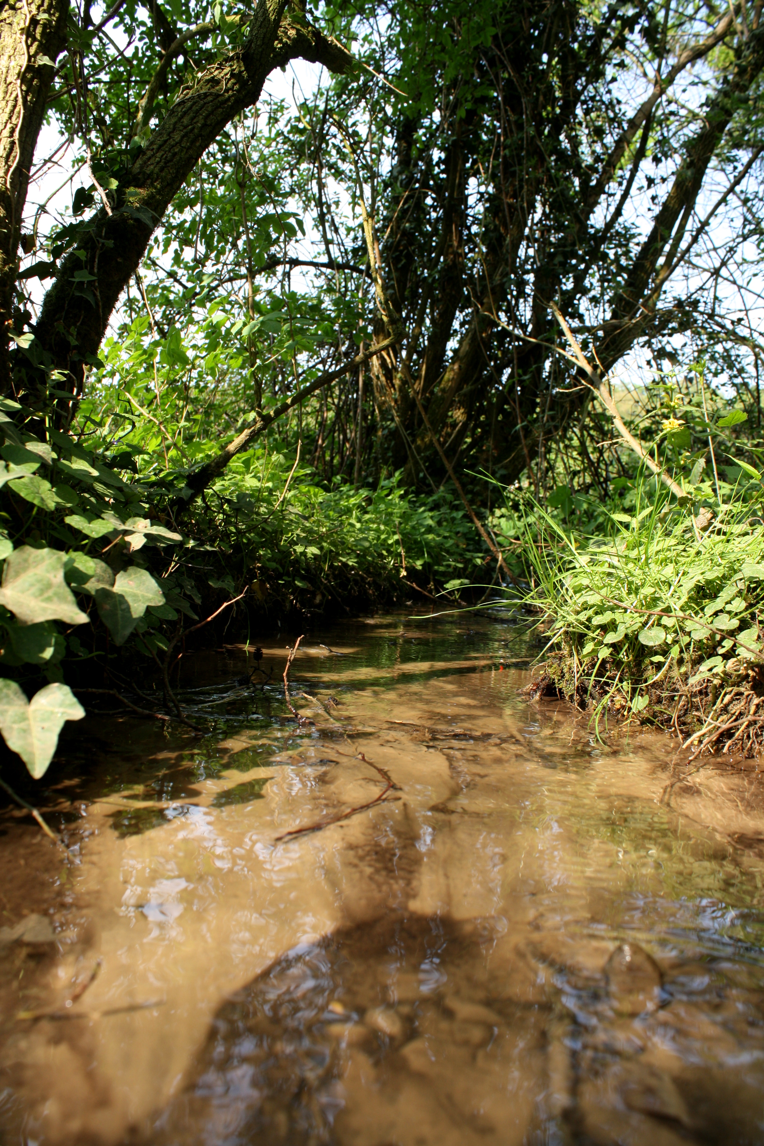 Mittelbuschbach